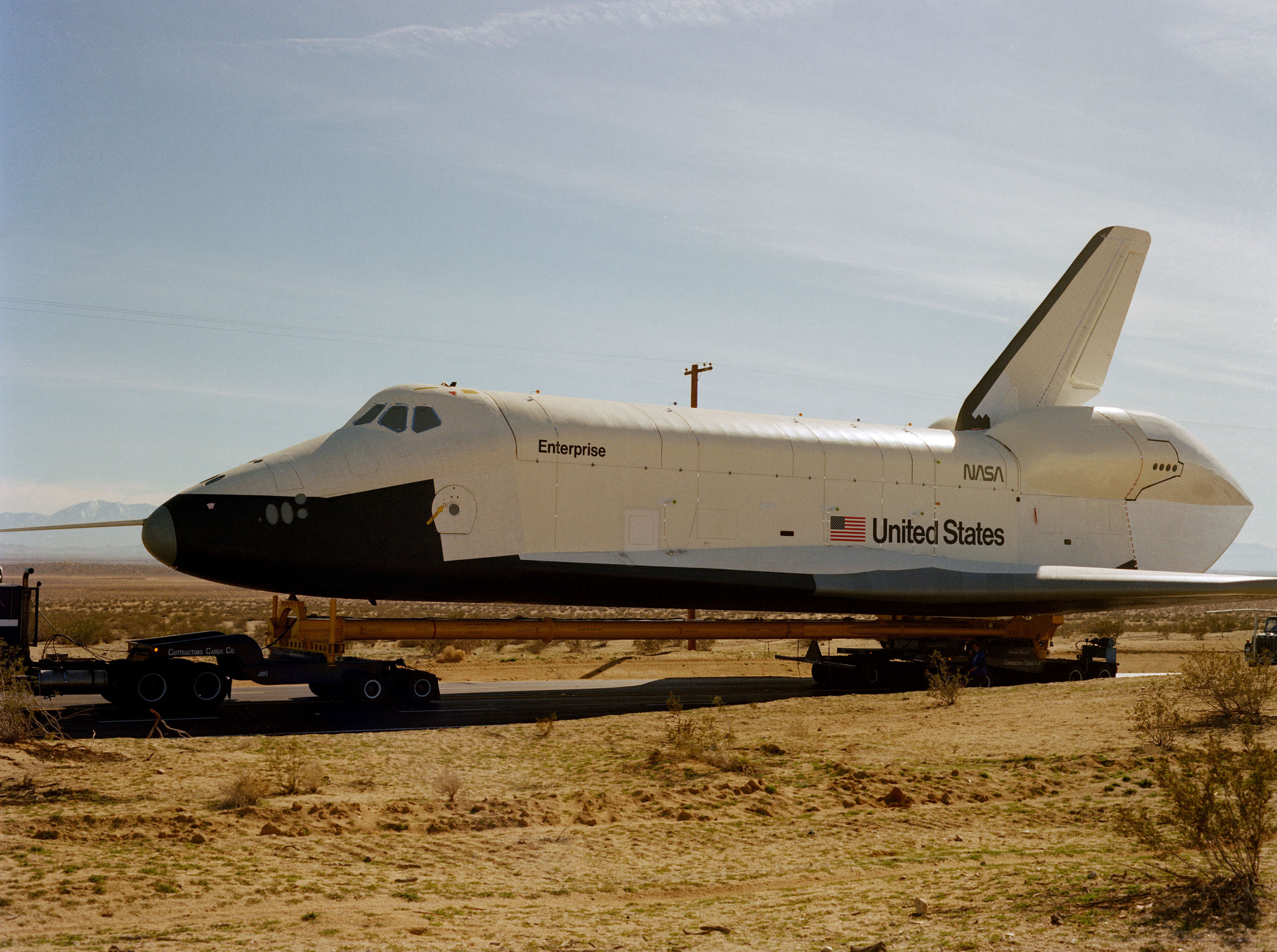 A side view of NASA Space Shuttle Orbiter OV-101 Enterprise as it arrives at Edwards Air Force Base for testing at Dryden Flight Research Center.